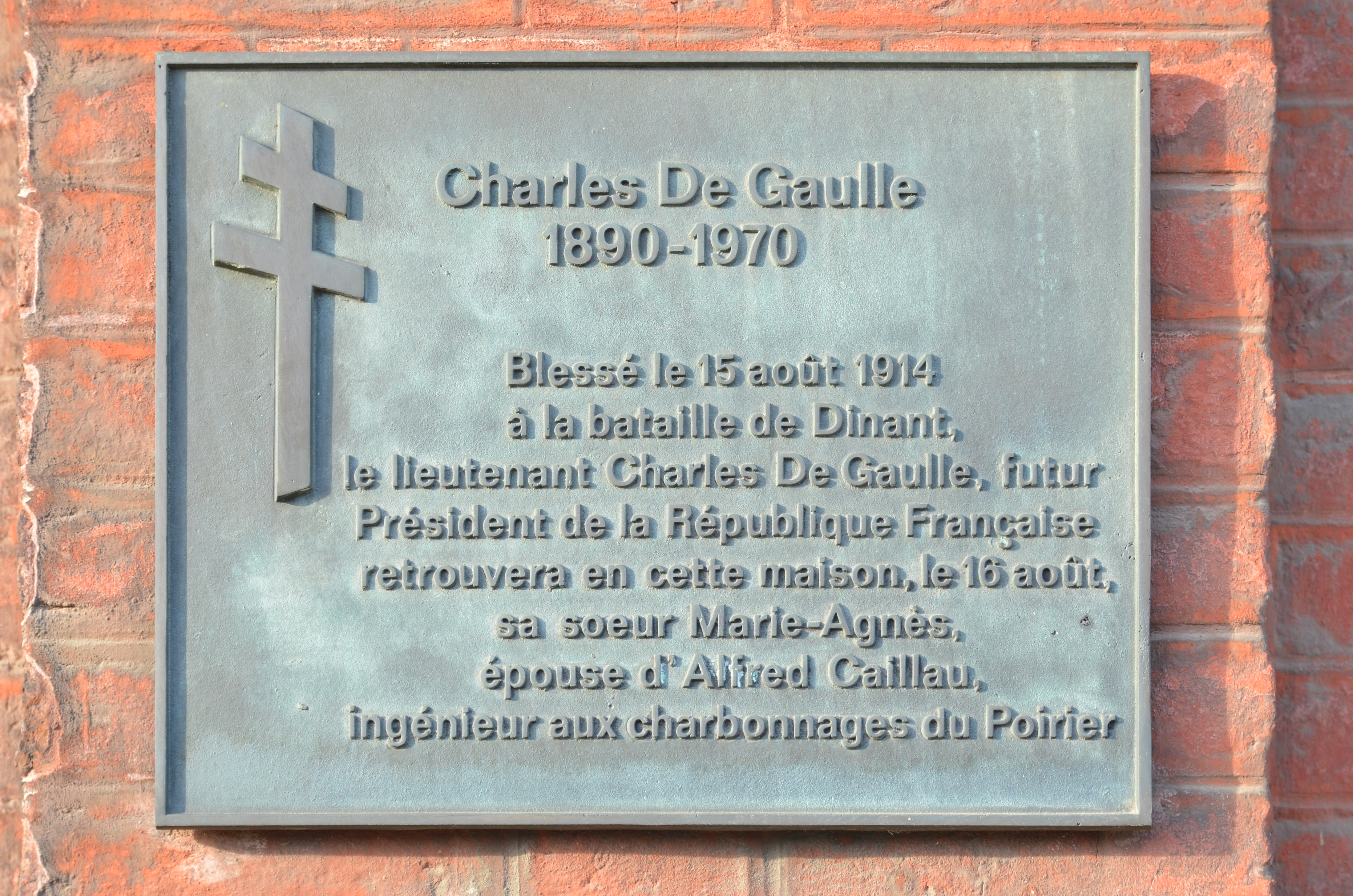 Plaque in memory of Charles De Gaulle's visit to his sister Marie-Agnes in Charleroi on August 16, 1914.